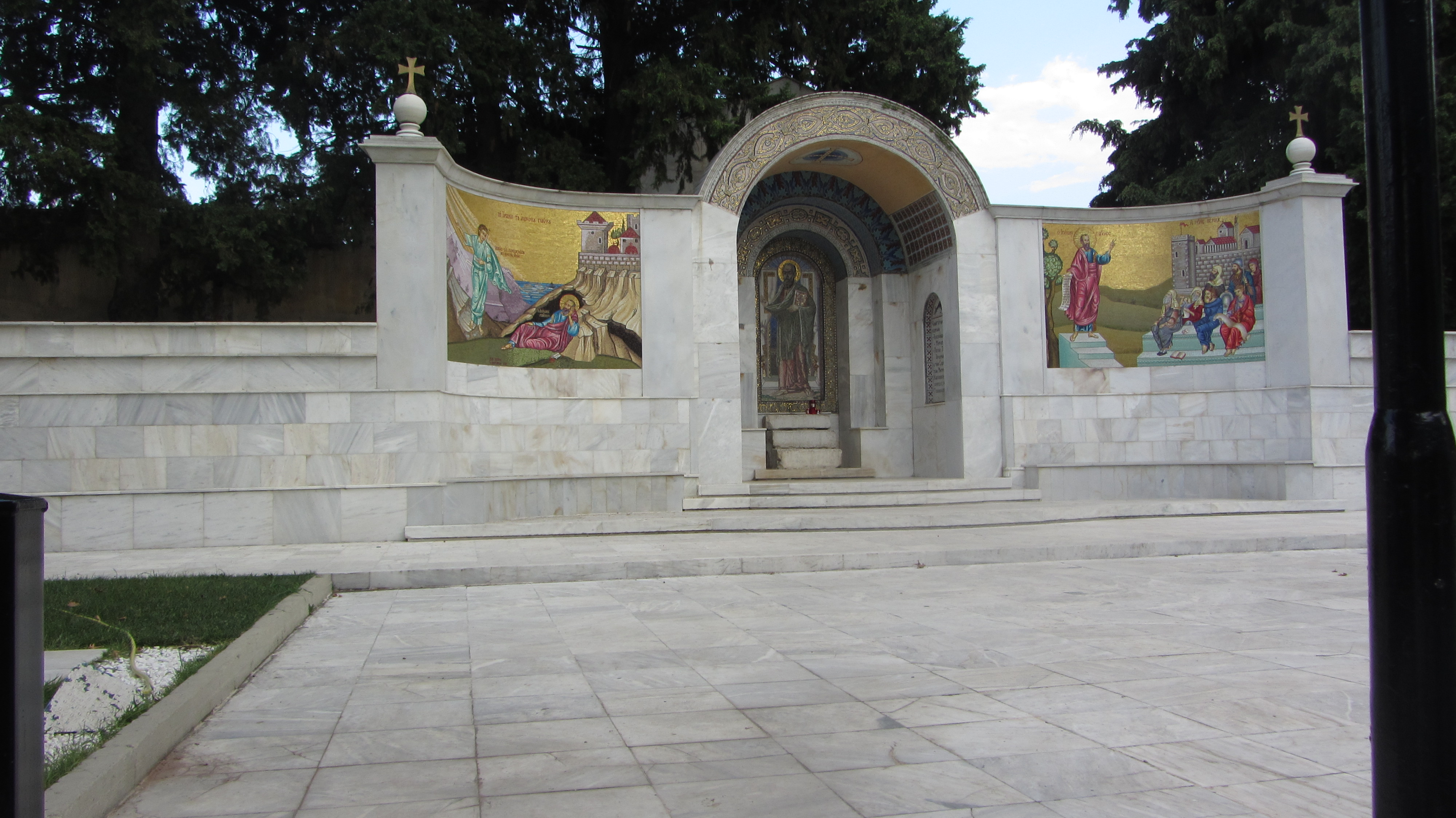 Altar of St Paul in Veroia, at the place of his gospel